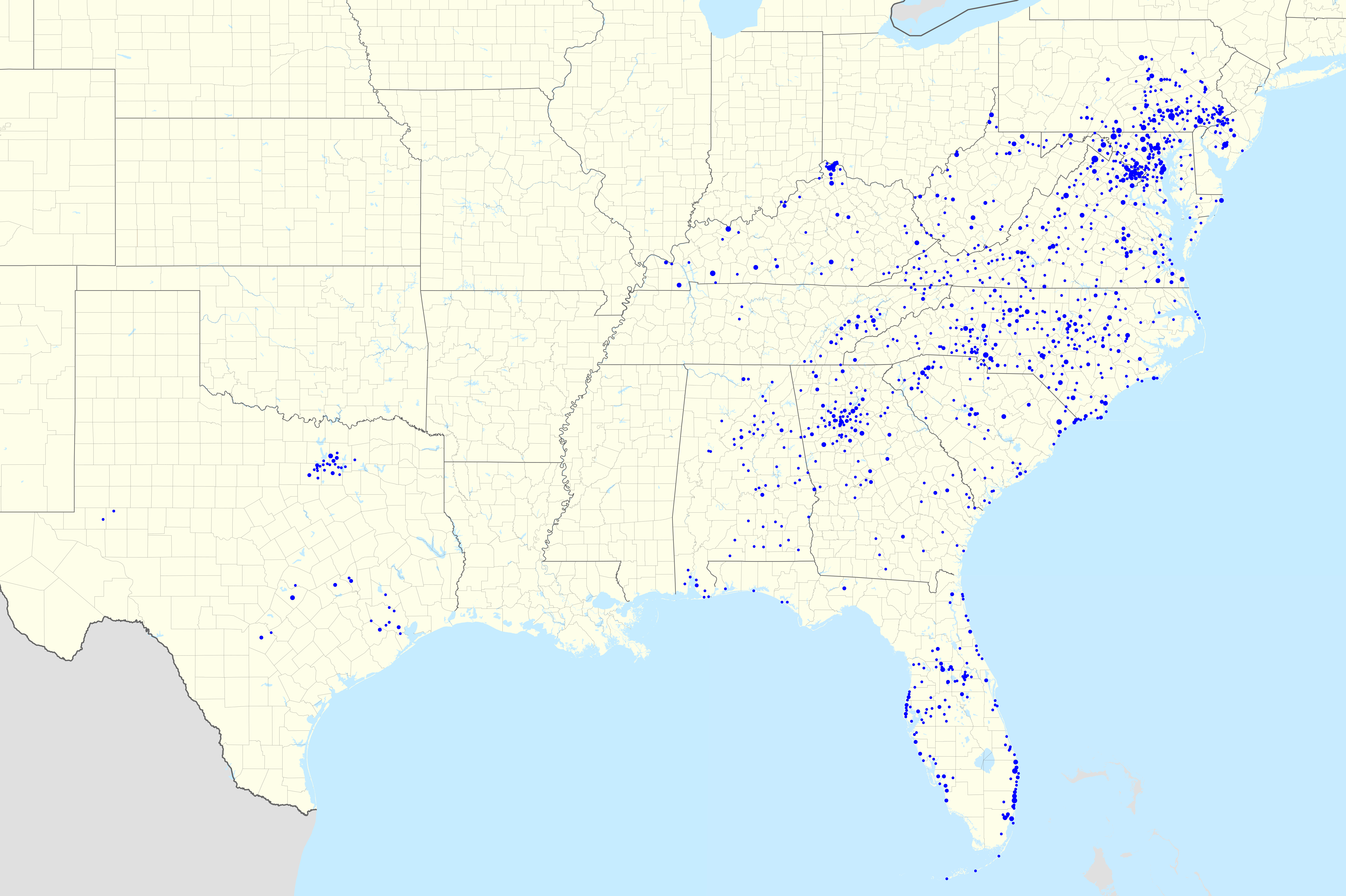 Footprint of BB&T. Cities with more than one branch have progressively larger points.